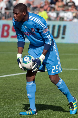 Picture of soccer player, Sean Johnson. Wilson Wong photo.